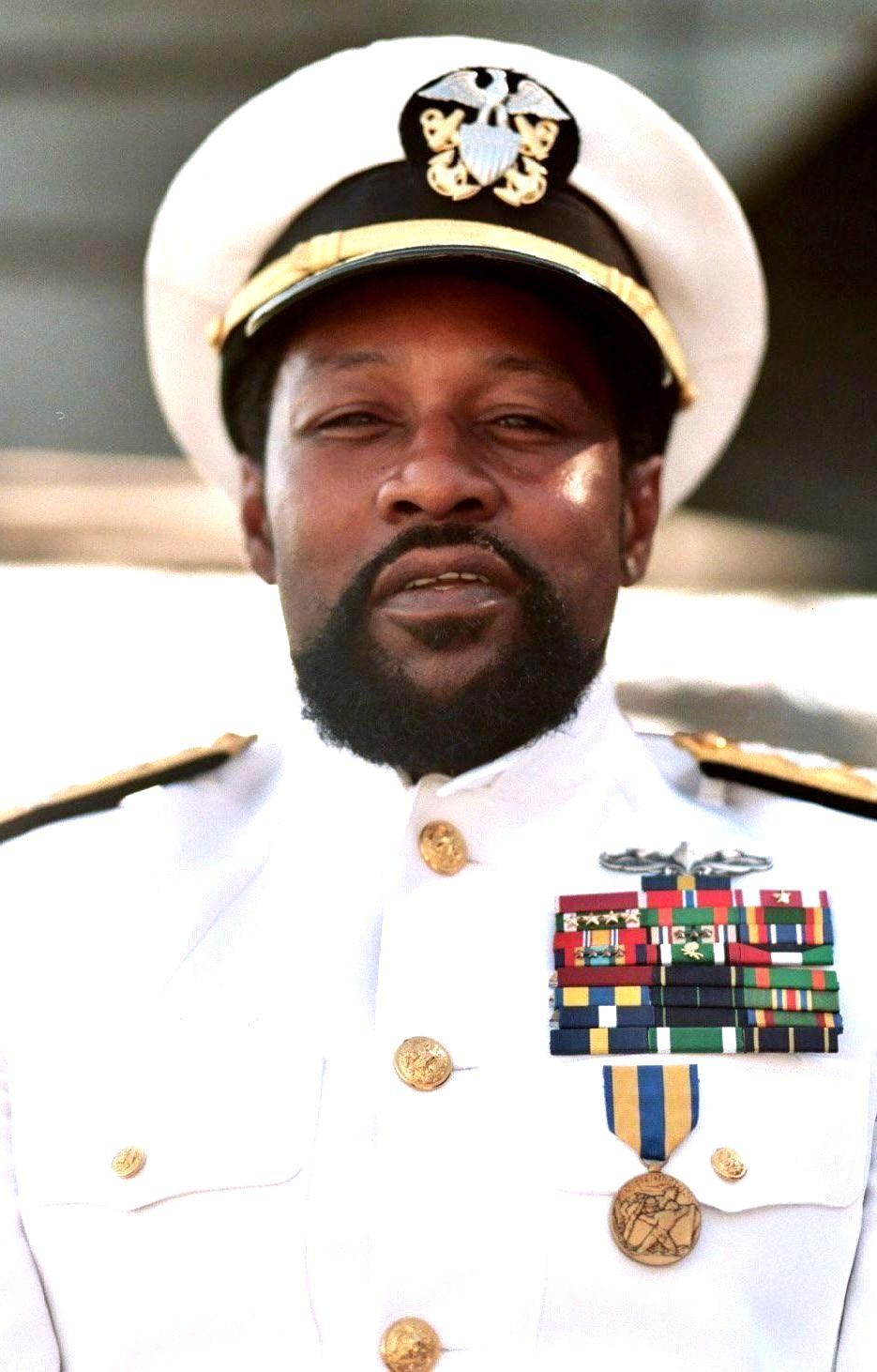 Victor Willis - original lead singer of Village People